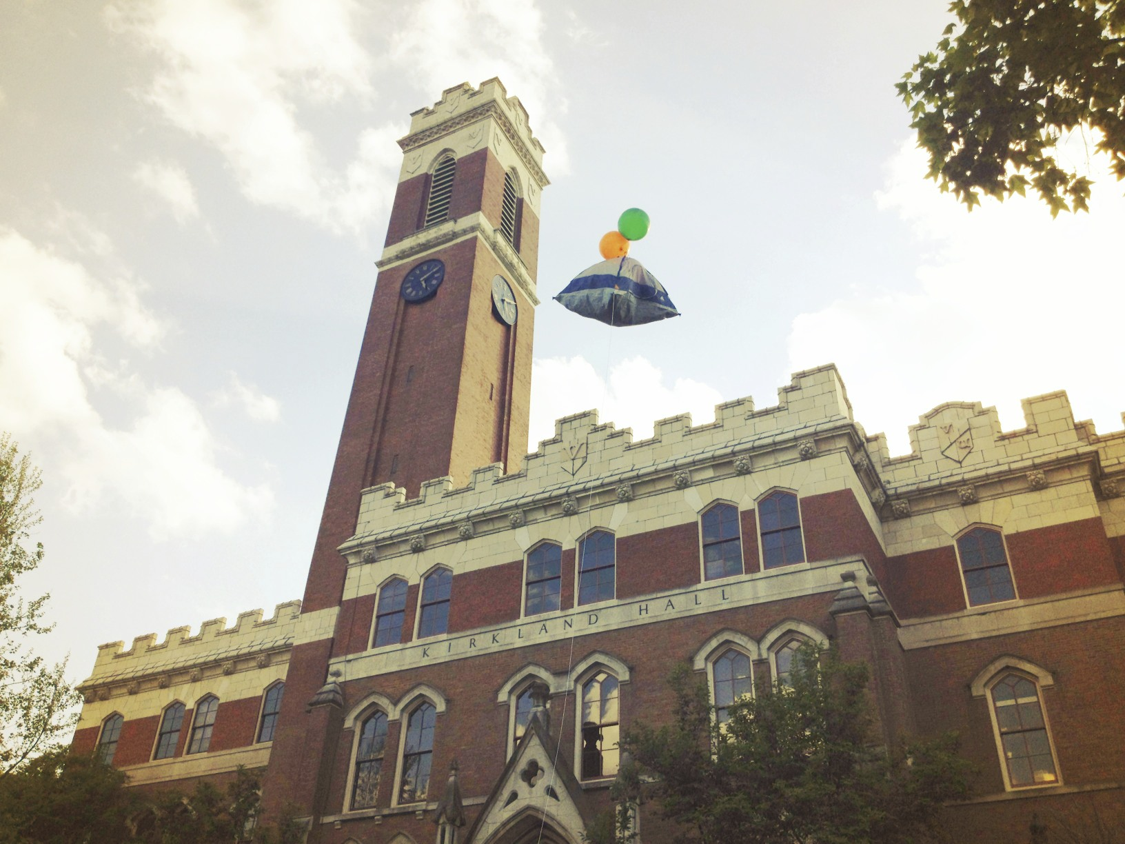 Occupy Vanderbilt begins their march to the Rally for the Right to Exist; held on April 1, 2012 at the Legislative Plaza in Nashville, TN.